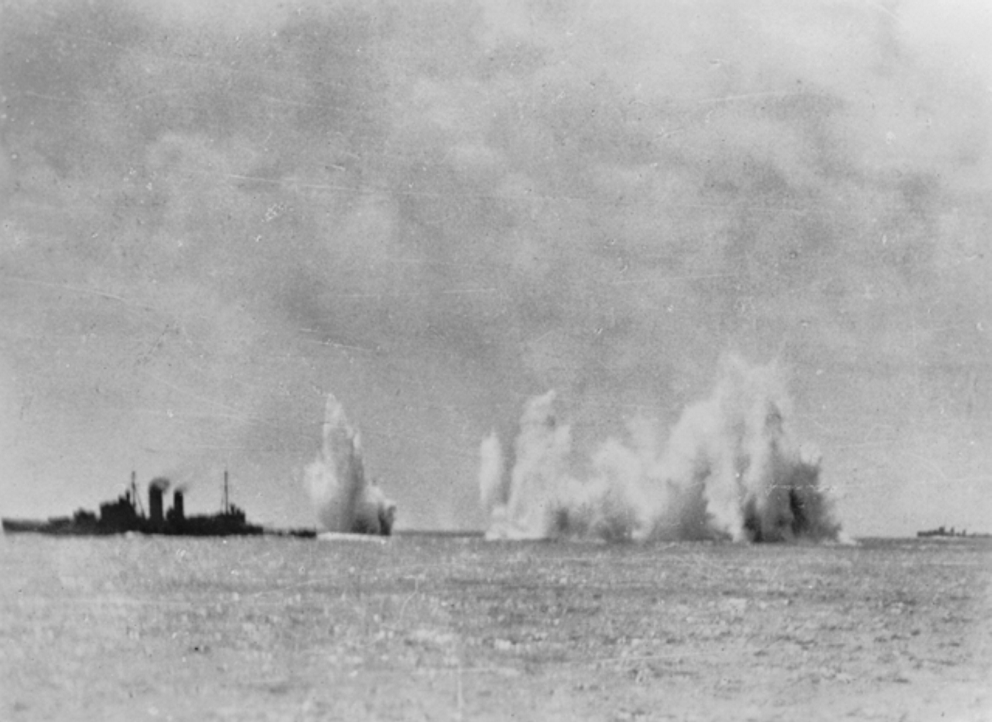 The Royal Navy cruiser HMS Exeter (68) and the Australian cruiser HMAS Hobart (D63) under aerial attack by Japanese aircraft in seas of South East Asia. A Dutch destroyer is visible at right. Most probably this image was taken as the ship was passing through the Gaspar Straights, Indonesia, 14-15 February 1942.